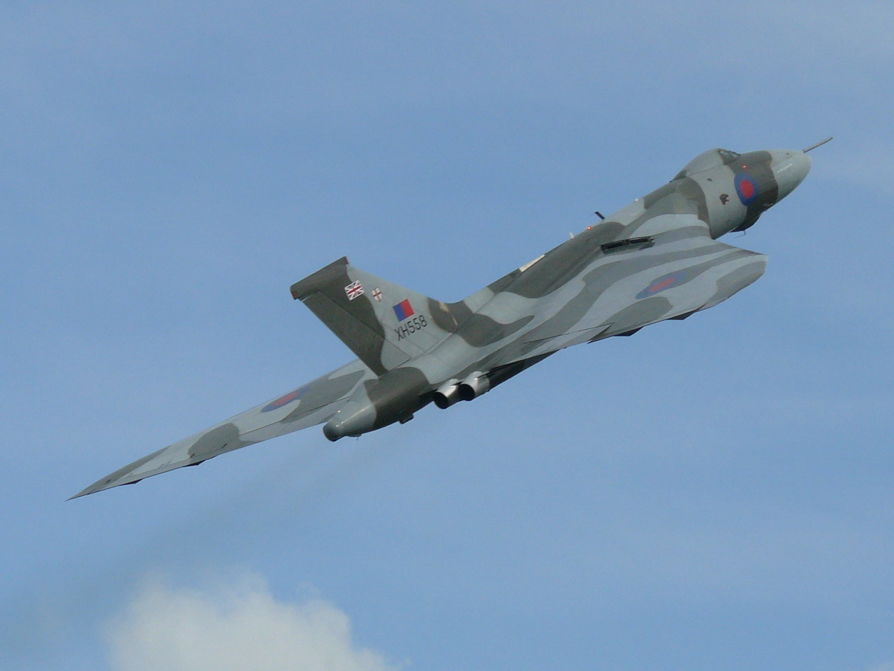 Avro Vulcan XH558, performing at the 2011 Abingdon Air & Country Show